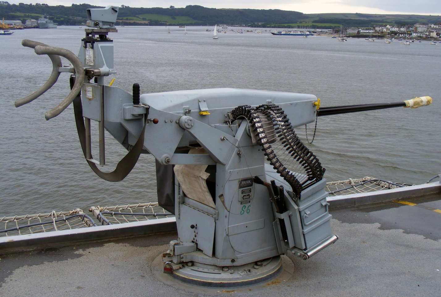 A 20mm gun mounted on a Royal Naval warship